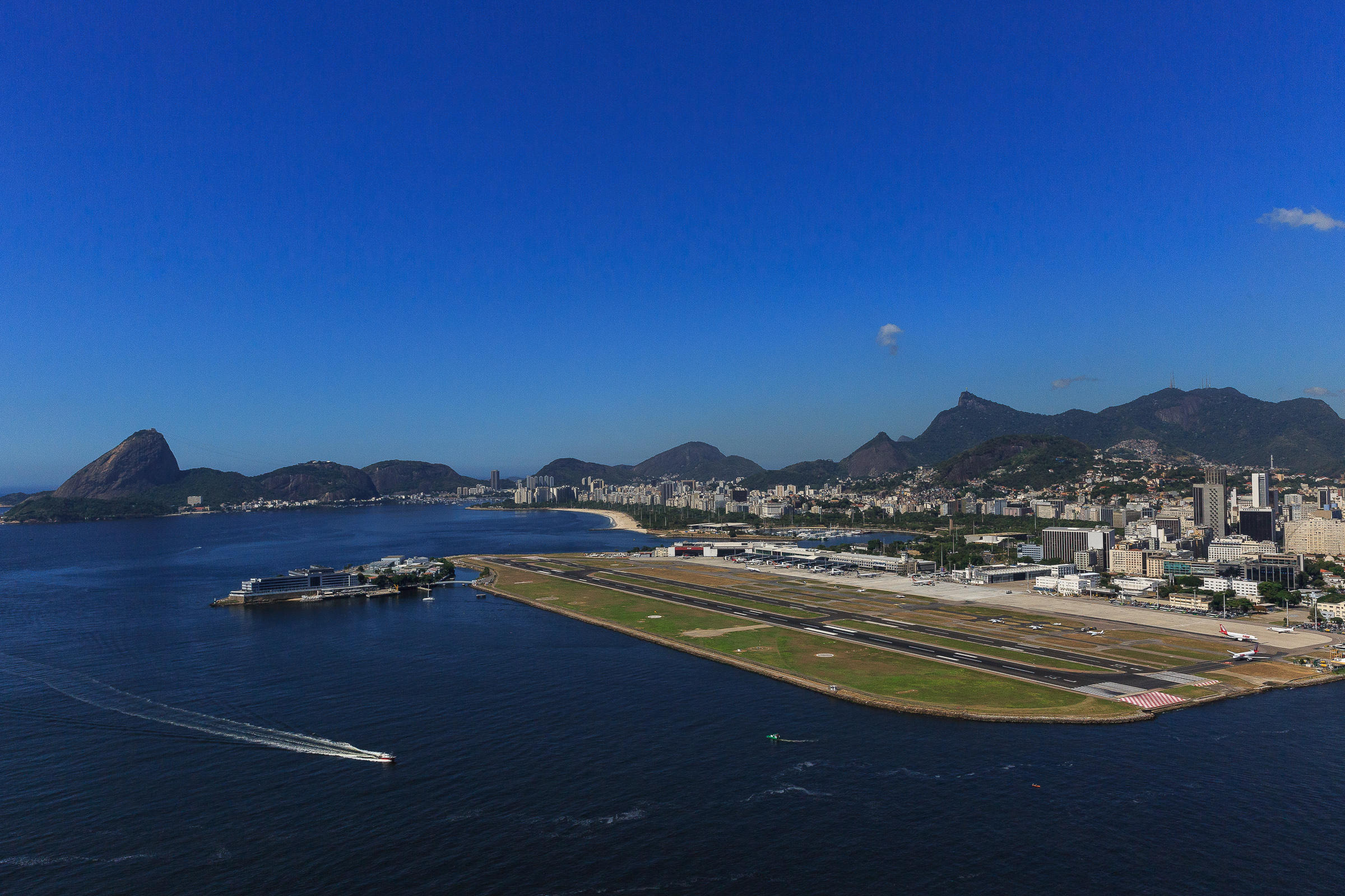 Vista aérea do aeroporto Santos Dumont na cidade do Rio de Janeiro